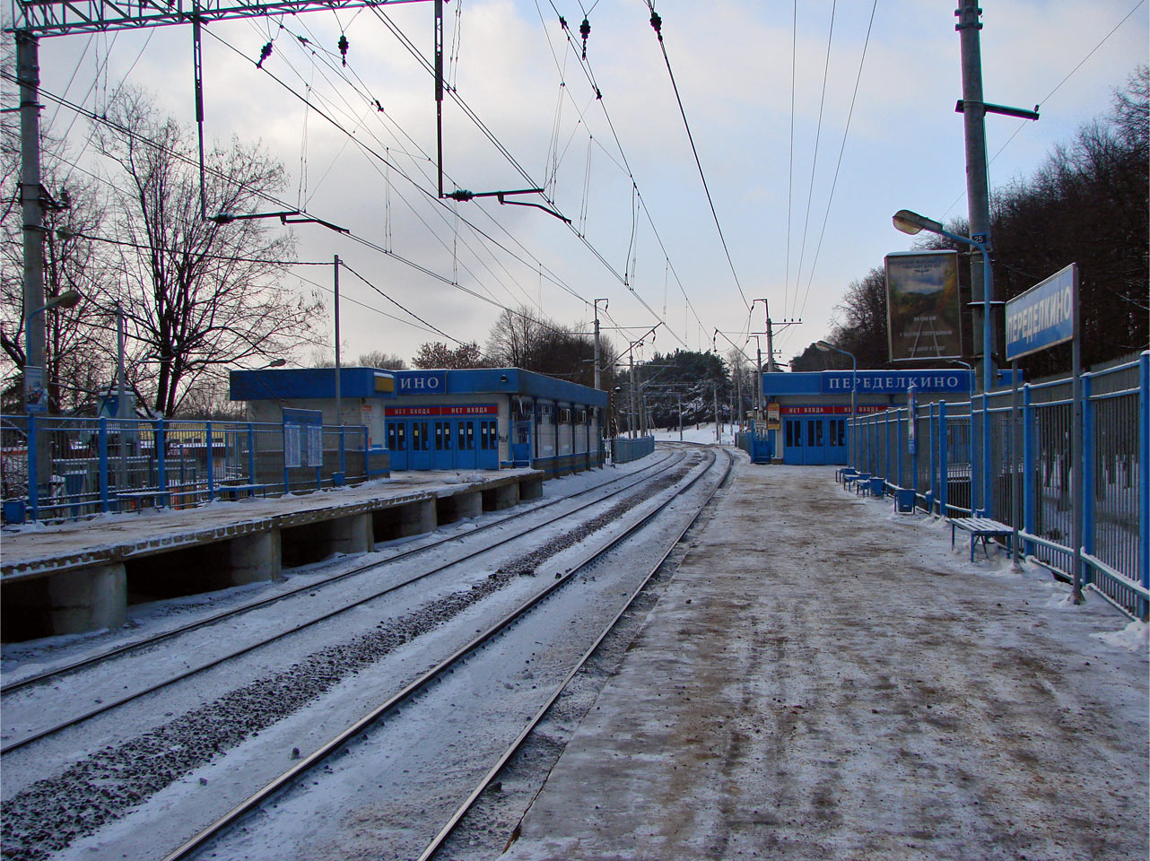 Peredelkino platform, Moscow.